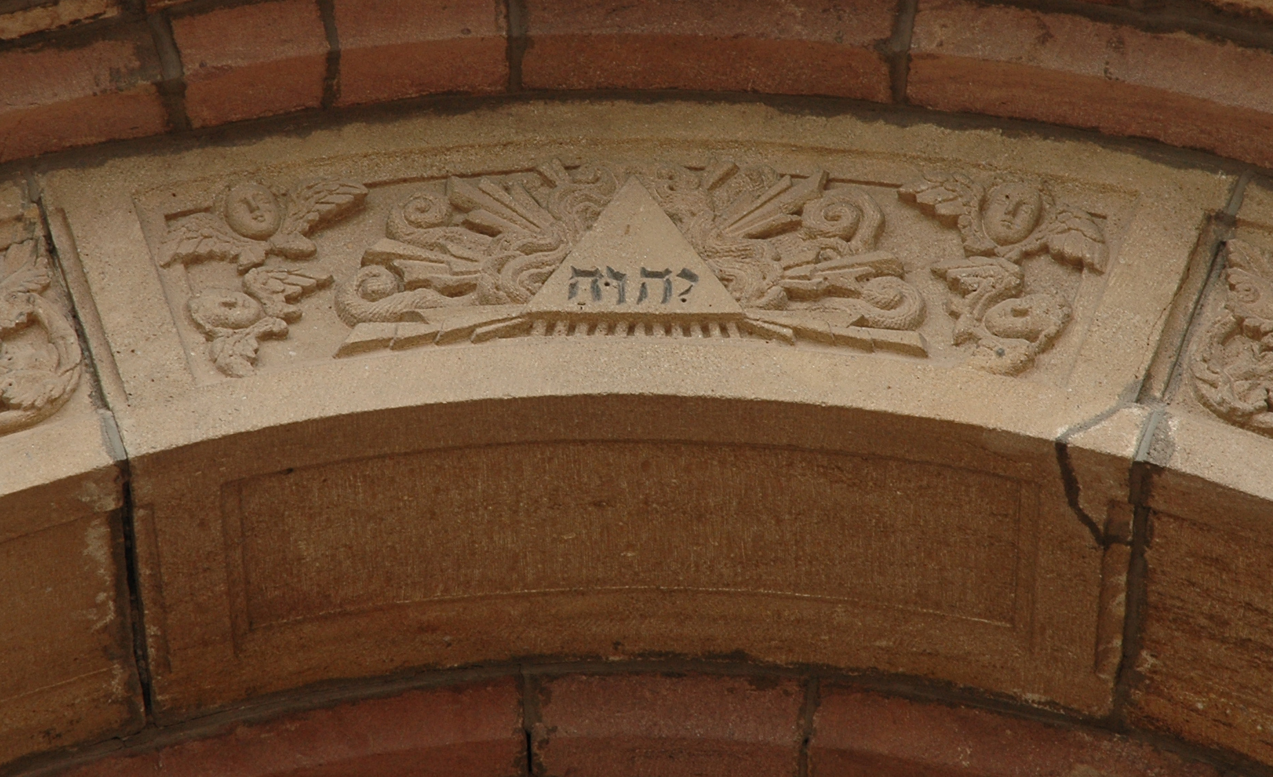 The most interesting architectural feature of the Saint Francis de Assisi Cathedral in Santa Fe is the presence of the tetragrammaton in Hebrew over the main entrance to the cathedral. It's made more puzzling by its presence inside of a triangle, which simultaneously reminded me of the trinity and the every conspirirific eye in the pyramid motif. No one really knows why it is there, but it is speculated that the Archbishhop had it worked into the design out of respect for a member of Santa Fe's Jewish community, who donated much of the funds to build the cathedral, and who was a close friend of the Archbishop.